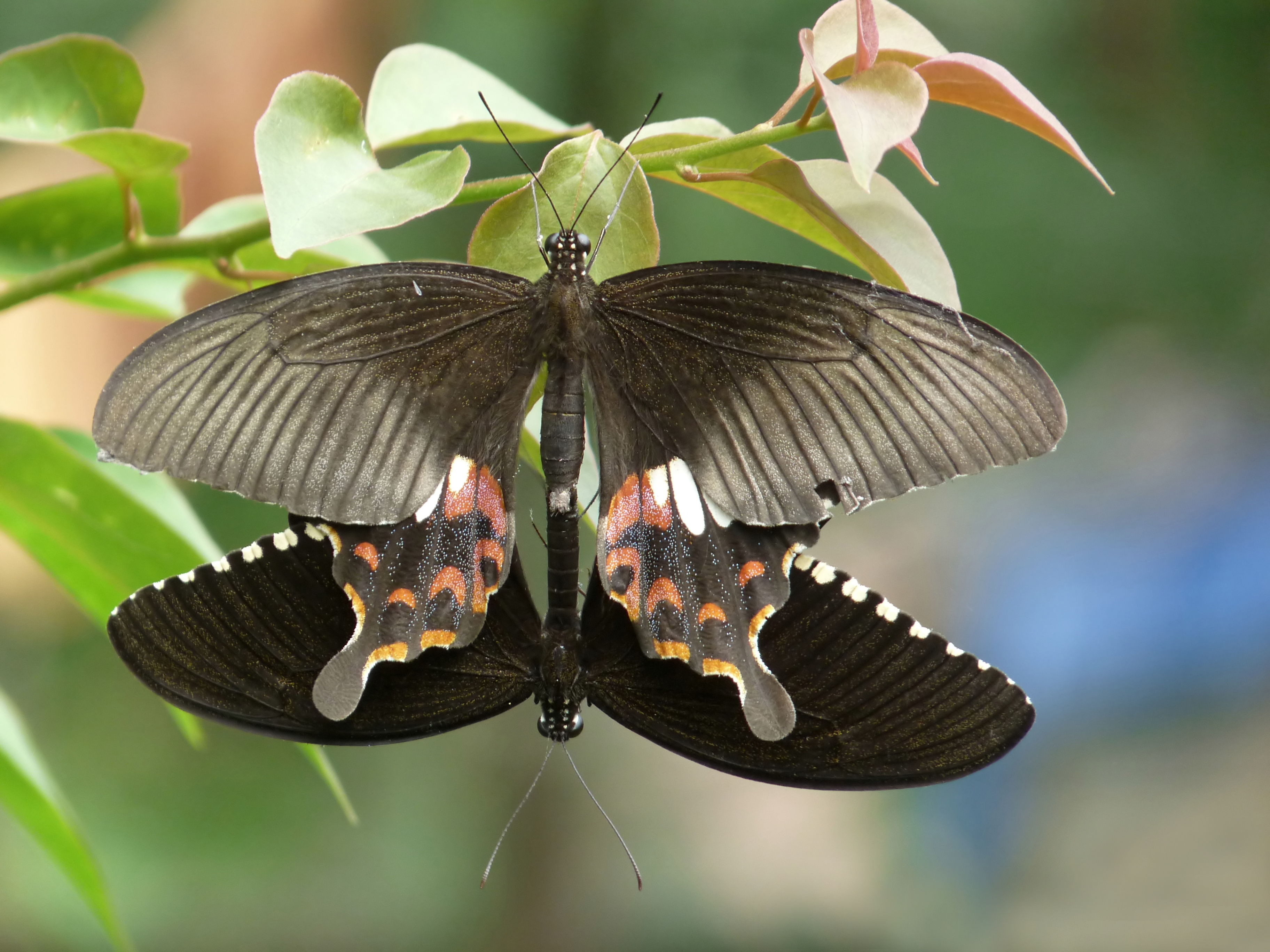 Papilio polytes, Common Mormon, is a common species of Swallowtail butterfly widely distributed across Asia.